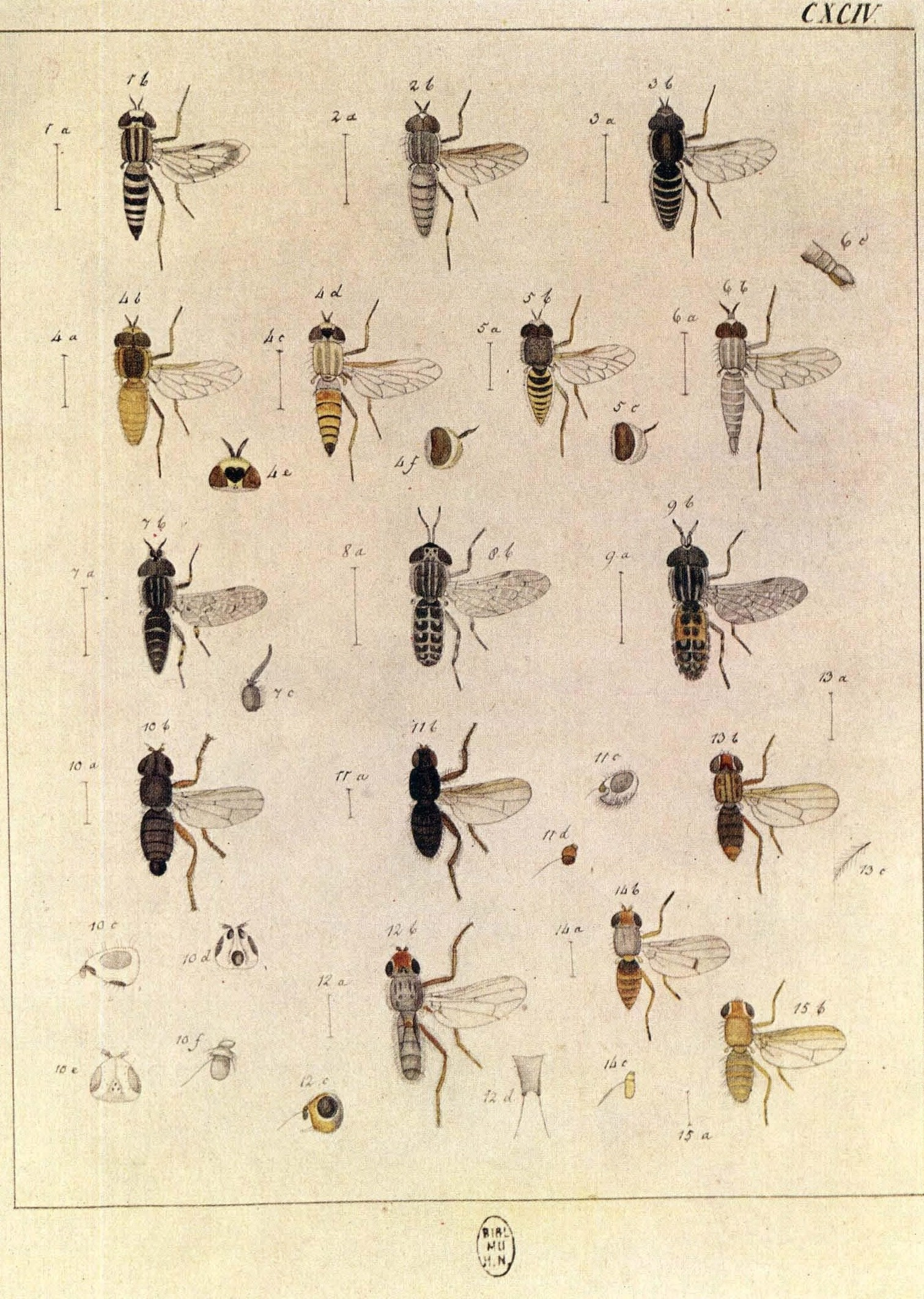 Johann Wilhelm Meigen, 1790 Abbildung der europäischen zweiflügeligen Insekten nach der Natur Von Joh. Wilh. Meigen zu Stolberg bei Aachen 1 CXCIV text Valid names and synonyms at Catalogue of Life (Annual Checklist) and Nomenclator.Types at MNHN collections database Note Europäischen Zweiflügeligen includes species described by previous authors - Linnaeus, Fallen, Wiedemann, Fabricius, Scopoli, Forster, Rossi, Macquart, Robert etc. 1 Thereva marginula Meigen 1820 Therevidae 2 Pandivirilia fuscipennis (Meigen, 1820) Therevidae 3 Thereva lugubris (Fabricius, 1787) synonym of Thereva bipunctata Meigen, 1820 (accepted name) Therevidae 4 Thereva flavilabris Meigen 1820 synonym of Thereva fulva (Meigen 1804) (accepted name) Therevidae 5 Thereva albilabris Meigen, 1820 synonym of Thereva unica (Harris, 1780)(accepted name) Therevidae 6 Thereva confinis (Fallen, 1815)synonym of Cliorismia rustica (Panzer, 1804 Therevidae 7 Haematopota crassicornis [nec Wahlberg, 1848] Tabanidae 8 Haematopota grandis Meigen, 1820 Tabanidae 9 Haematopota pluvialis Linnaeus, 1758 Tabanidae 10 Orygma luctuosa Meigen, 1830 Sepsidae 11 Coelopa frigida (Fabricius, 1805) 12 Scathophaga furcata (Say, 1823) 13 Scathophaga inquinata (Meigen, 1826) 14 Scathophagidae lateralis Meigen, 1826 (provisionally accepted name) 15 untraced